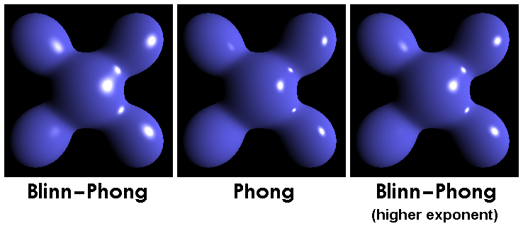 Demonstration of Blinn-Phong versus Phong reflection models, created by the uploader Brad Smith, August 7, 2006.